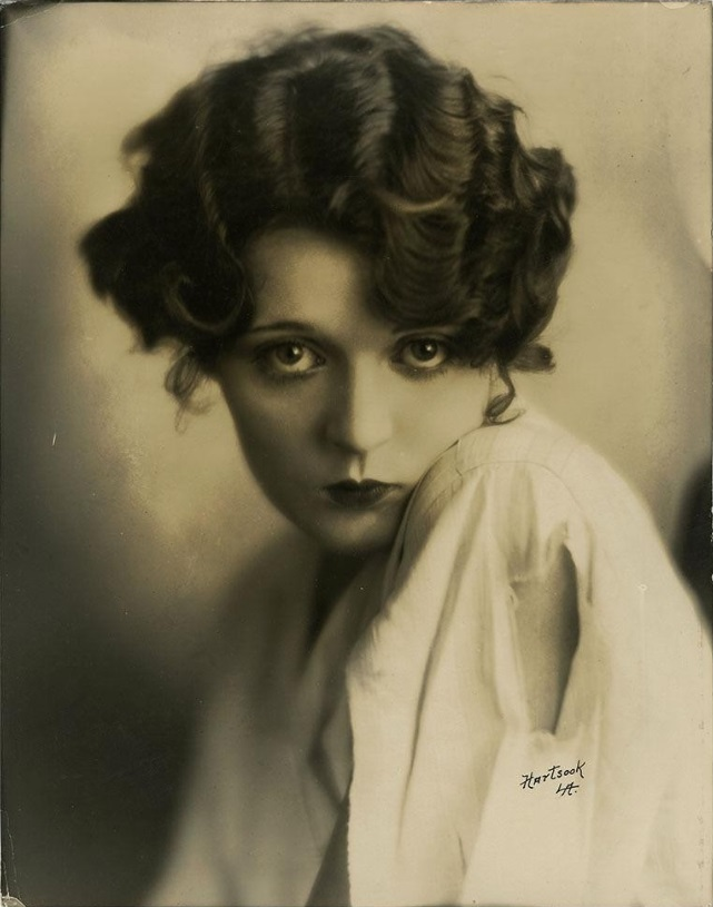 Portrait of American actress Dorothy Devore (1899 –1976) by American photographer Fred Hartsook.